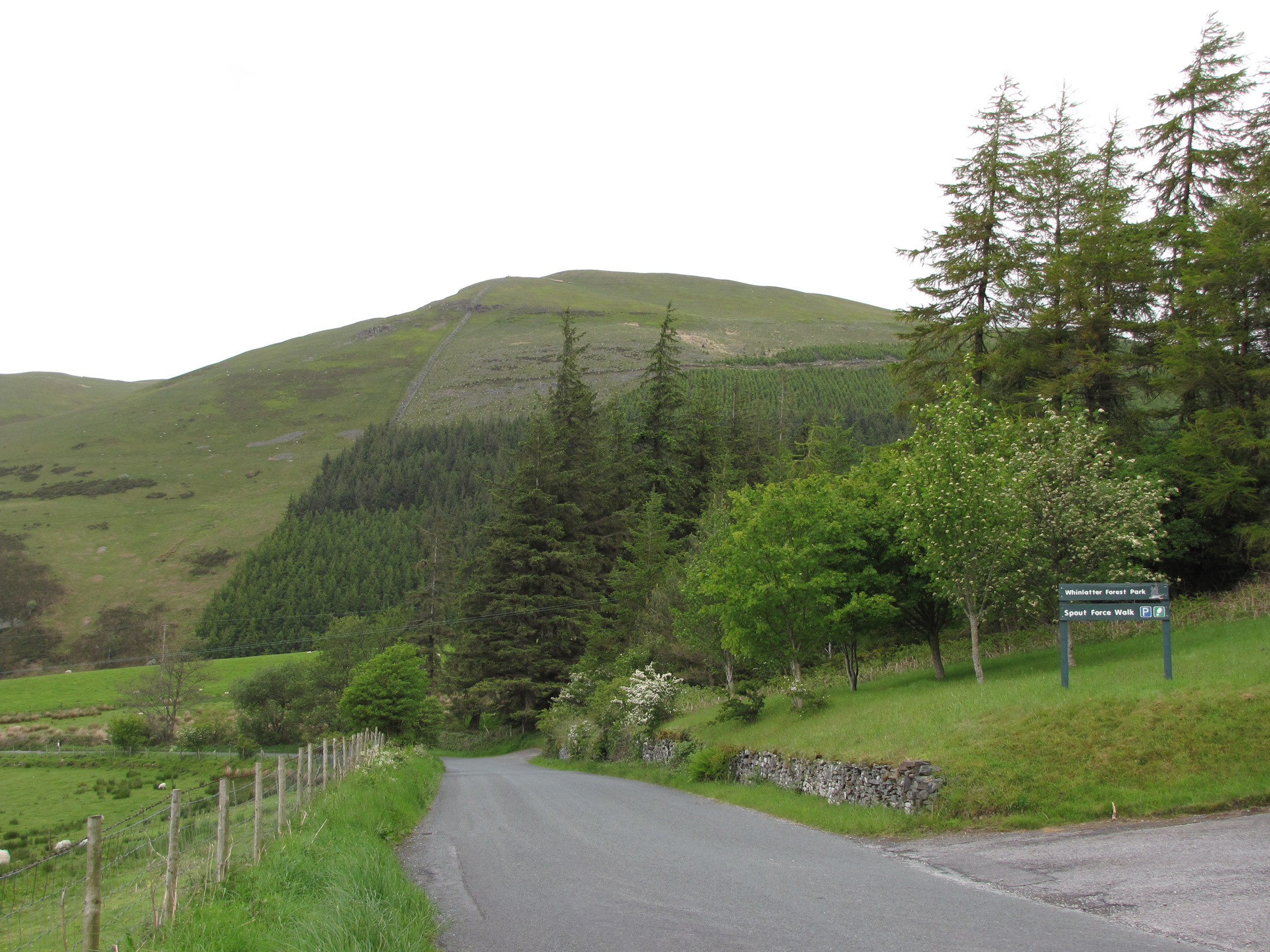 The fell Graystones in the English Lake District seen from the Whinlatter Pass road (B5292) at the Spout Force car park.